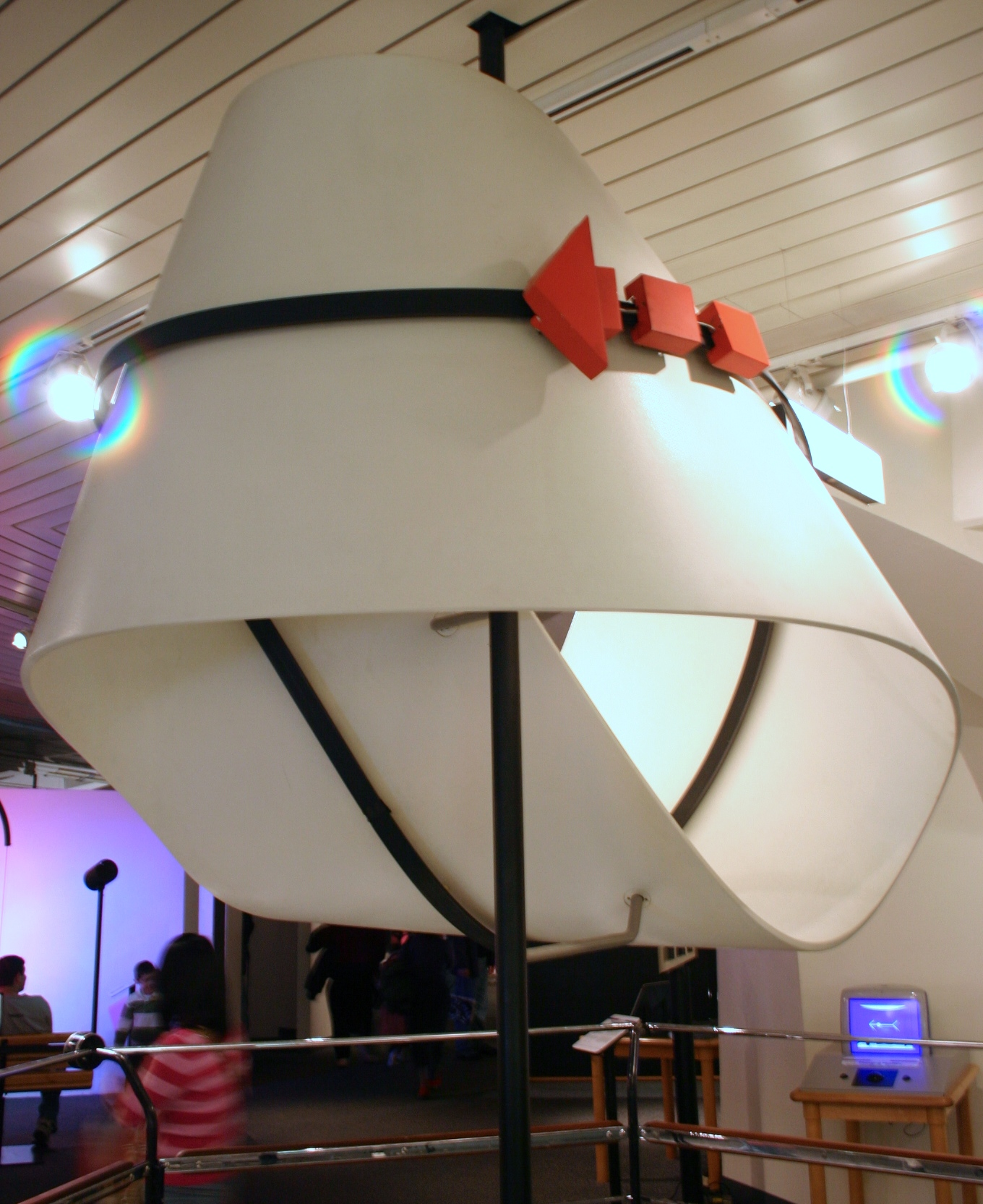 Part of the Eames Mathematica exhibit.